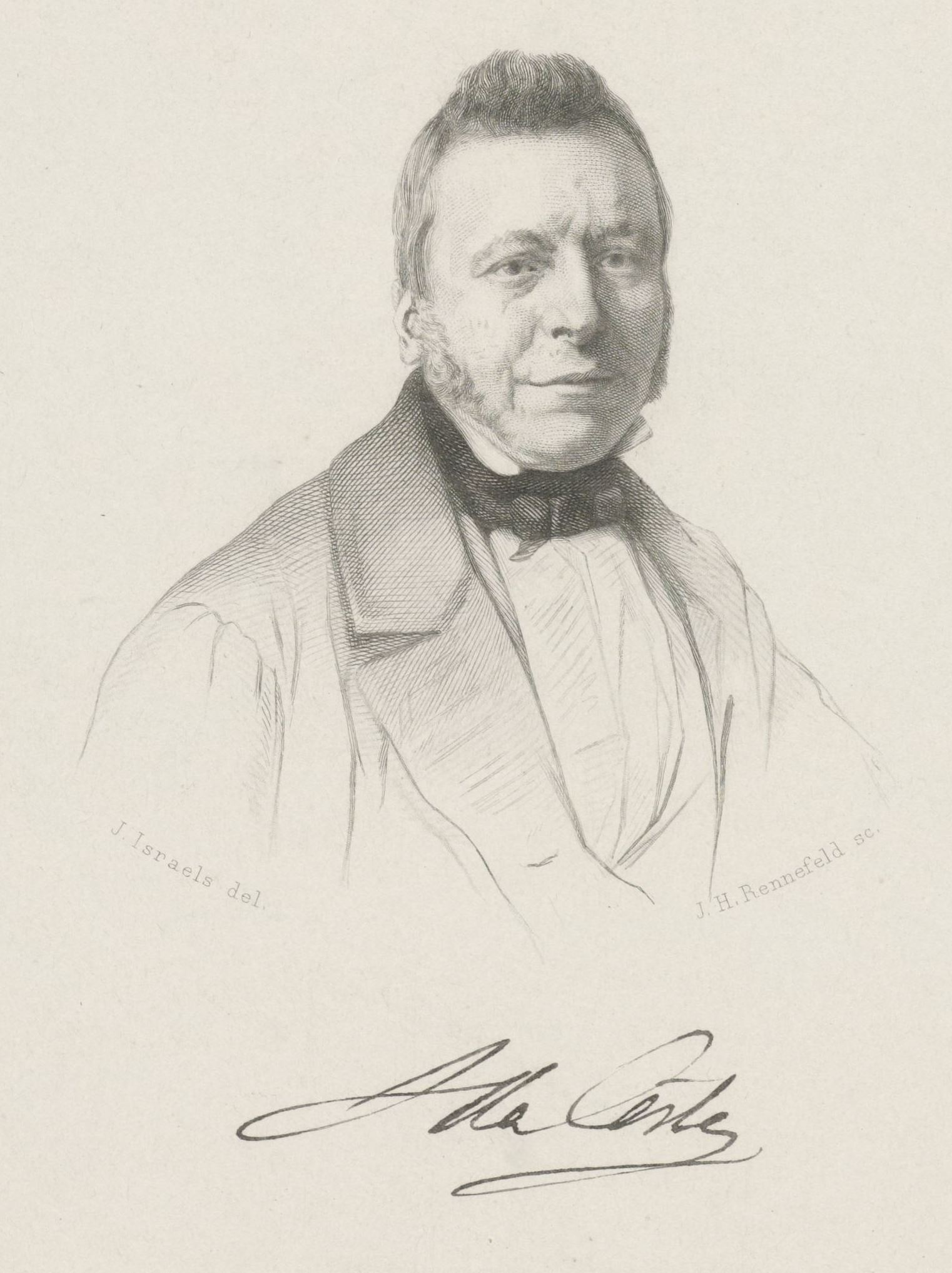 Portrait of Isaac da Costa